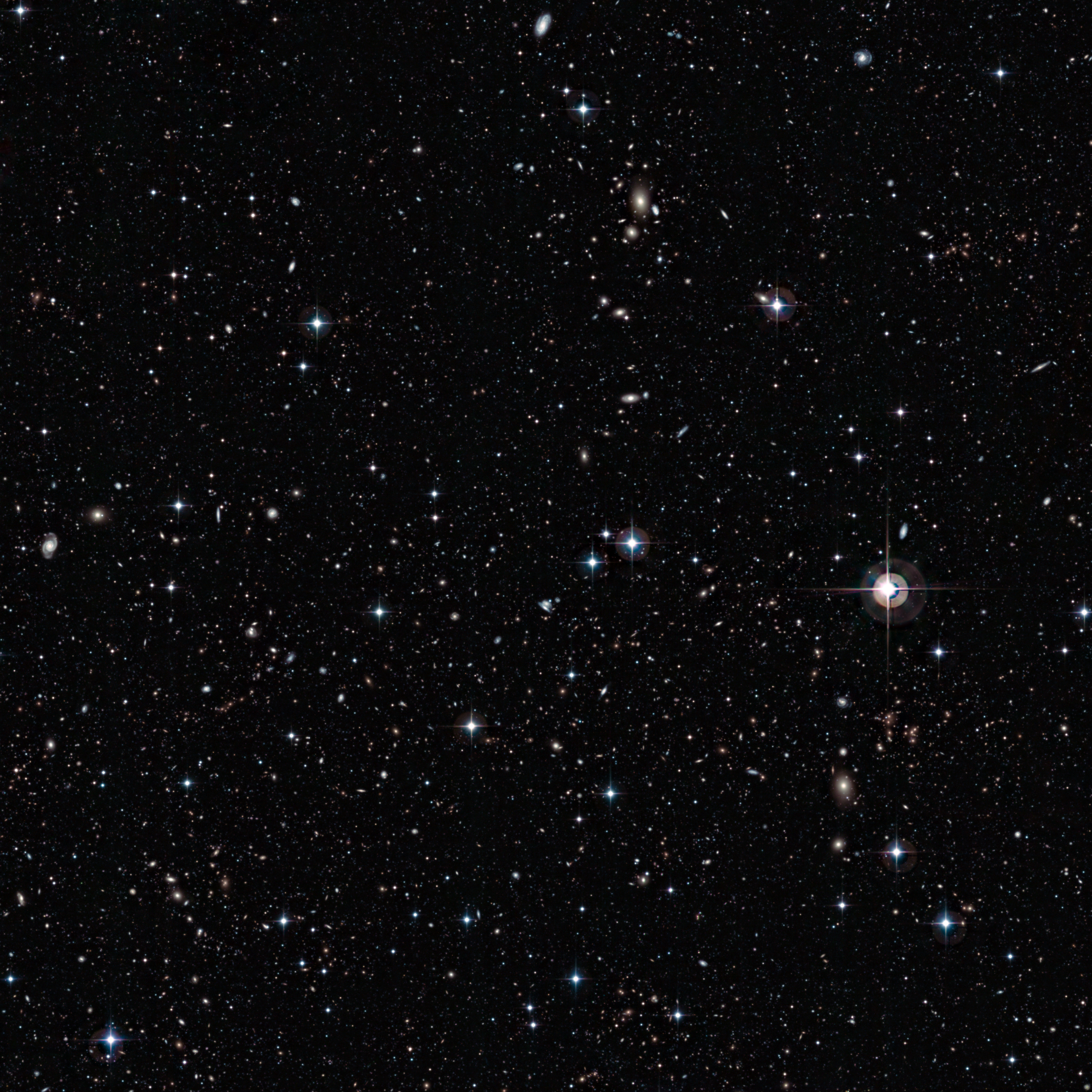 This rich scattering of galaxies was captured using the Wide Field Imager attached to the MPG/ESO 2.2-metre telescope at ESO’s La Silla Observatory in Chile. The thousands of galaxies contained in this small area of sky give a glimpse into the Universe’s distant past, whilst also acting as a powerful reminder of the immense scale of the cosmos. This image was taken as part of the COMBO-17 project (Classifying Objects by Medium-Band Observations in 17 Filters), in which detailed surveys of five small patches of sky were made through 17 different coloured filters. The area of sky covered by each of the five regions is about the same area as that covered by the full Moon. The survey has produced a remarkable haul of celestial specimens. For example, across just three of these regions over 25 000 galaxies have been identified. Just below the bright stars in the centre of the image is the galaxy cluster Abell 226. It was first noted by astronomer George Ogden Abell in his catalogue of galaxy clusters of 1958. The galaxies in Abell’s clusters, including Abell 226, are only up to a few billion light-years away. But behind these objects, even fainter, more distant galaxies were hiding. The COMBO-17 study has unveiled these hidden galaxies, thanks to long exposure images from the MPG/ESO 2.2-metre telescope at ESO’s La Silla Observatory in Chile. Some of the most distant flecks of light visible in this photo represent galaxies whose light has been travelling towards us for about nine or ten billion years. That means that the galaxies in this image have a great variety of ages, some of them are quite similar to the Milky Way, while others reveal what the Universe was like when it was much younger. This image was taken using three of the 17 filters from the study: B (in blue), V (in green), and R (in red). Links * COMBO-17 at the Max Planck Institute for Astronomy